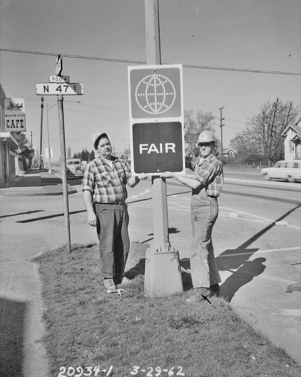 World's Fair sign at 47th and Aurora, Seattle Washington, 1962. Item 70900], Engineering Department Photographic Negatives (Record Series 2613-07), Seattle Municipal Archives.